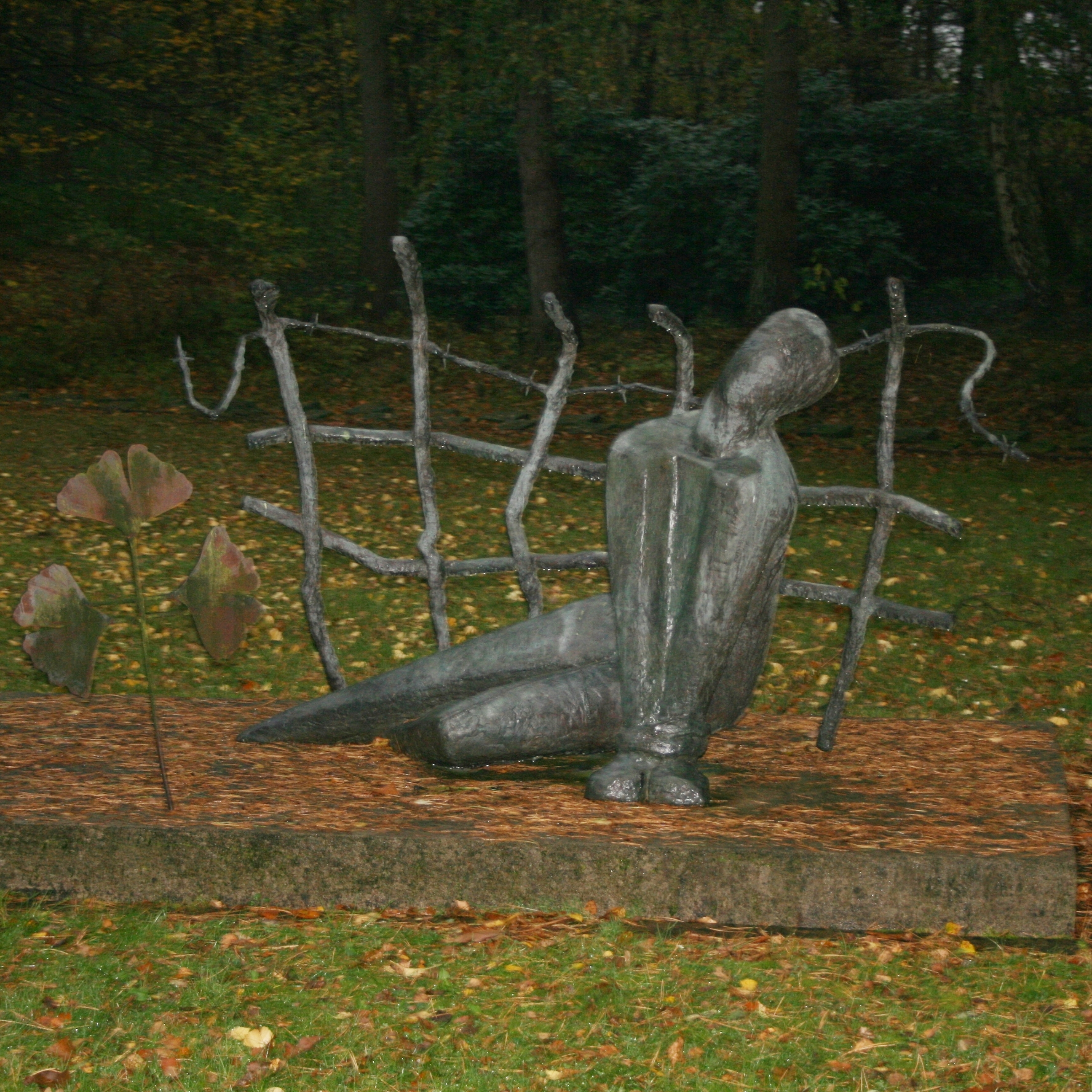 Memorial to the russian prisoners of war, who died in KZ Neuengamme, created by Grigoriy Jastrebentzkiy, 2002